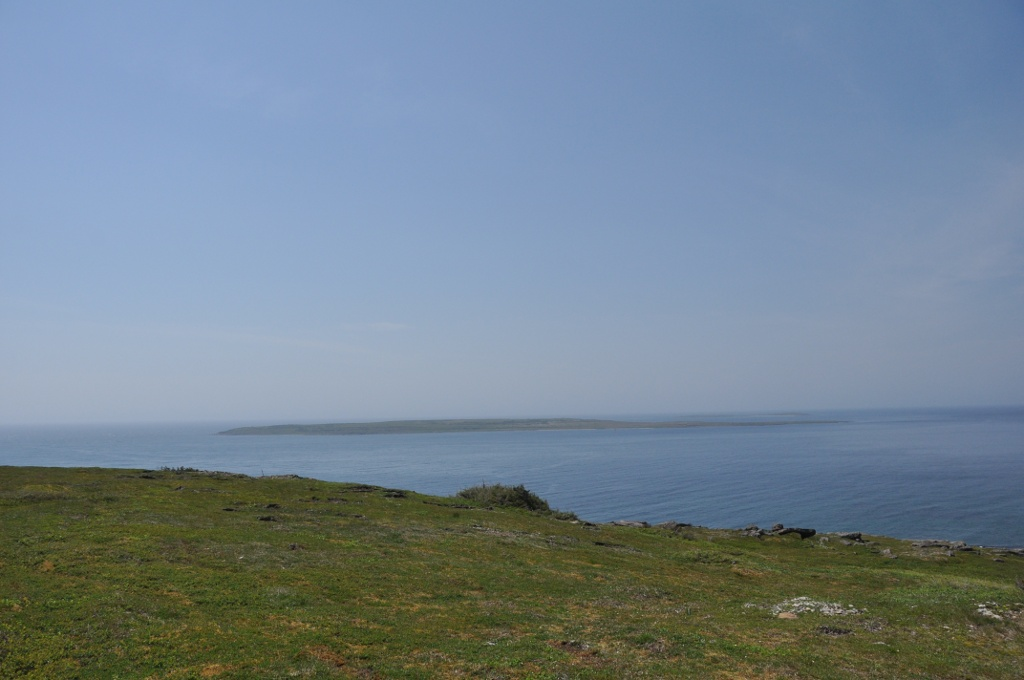 Île-au-Bois, Blanc-Sablon, Quebec, as seen from L'Anse-au-Clair, Labrador.